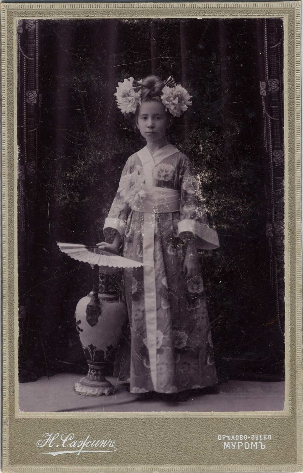 Portrait of girl in japanise costume. Photo by N.N. Sazhin